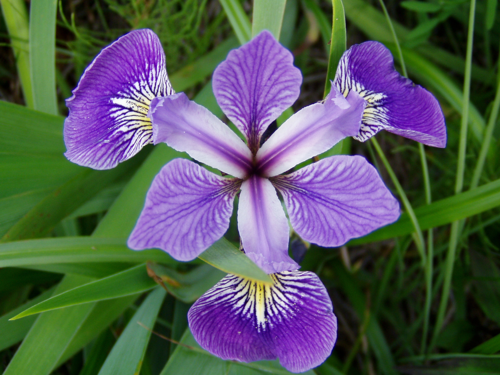 Blue flag flower close-up (Iris versicolor). Photo taken by Danielle Langlois in July 2005 at the Forillon National Park of Canada, Quebec, Canada.